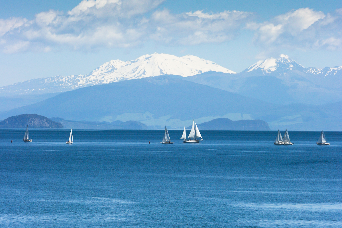 Yachts sailing on Lake Taupo, with the snow caped Mount Ruapehu in the Back Ground.